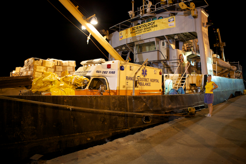 Scientology Volunteer Minister Ship, USCG Ship Hornbeam, arriving in Haiti, April 2010, bringing 165 tons of materials, food and other aids to the disaster-stricken country.